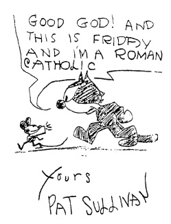 A sketch for fan by Pat Sullivan. Not from any publication.